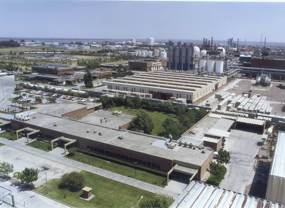 Petroquimical polo of bahia blanca